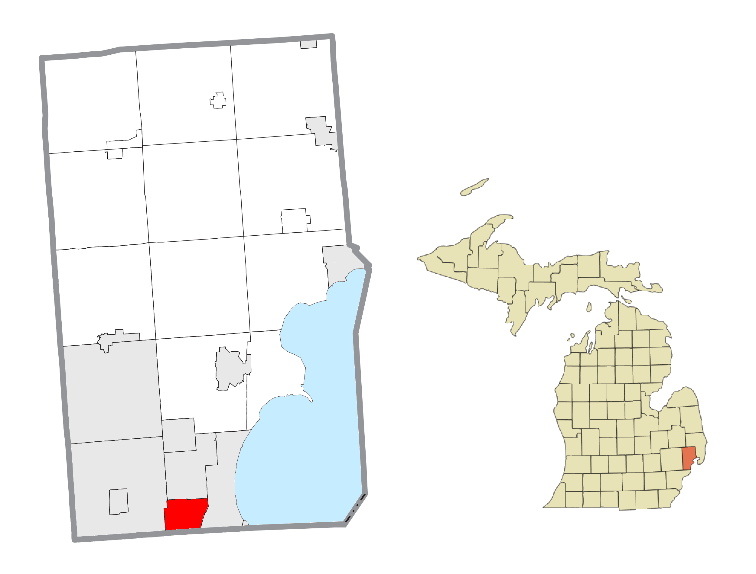 Eastpointe